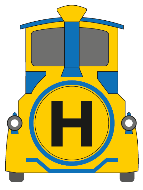 Germany - Baden-Württemberg - Bodenseekreis - Kressbronn am Bodensee/Langenargen: "FUN(K)-Bähnle", Logo